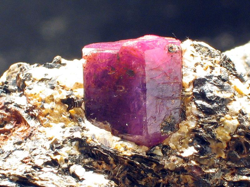 Crystal of rubin with biotite from Madagaskar, author Stowarzyszenie Spirifer